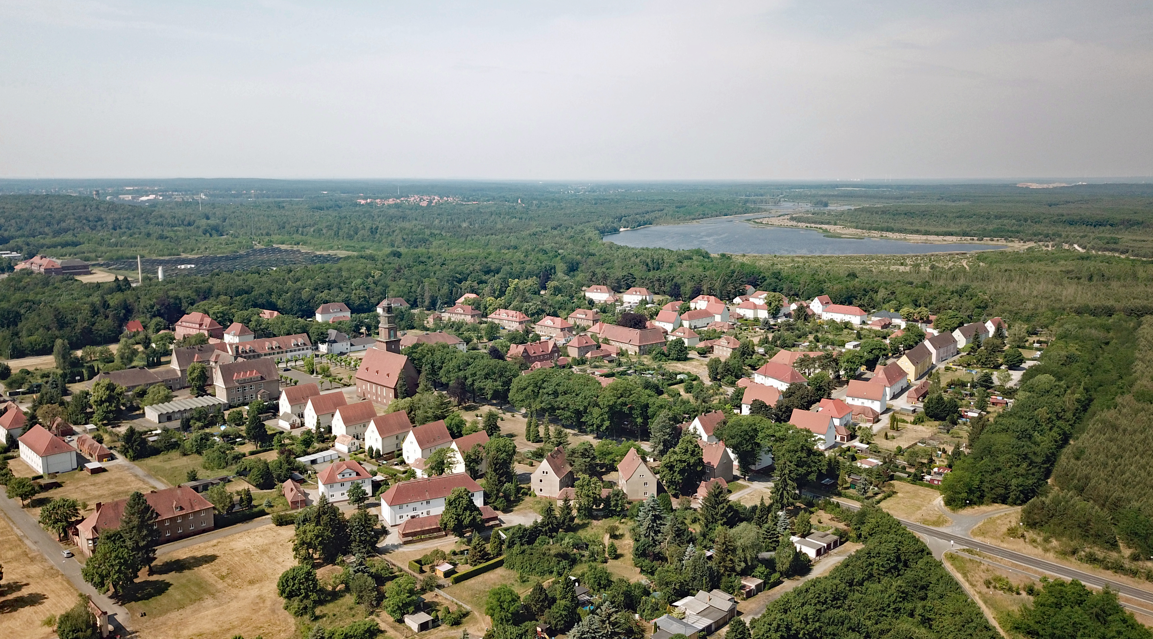 Laubusch Kolonie (Lauta, Saxony, Germany)